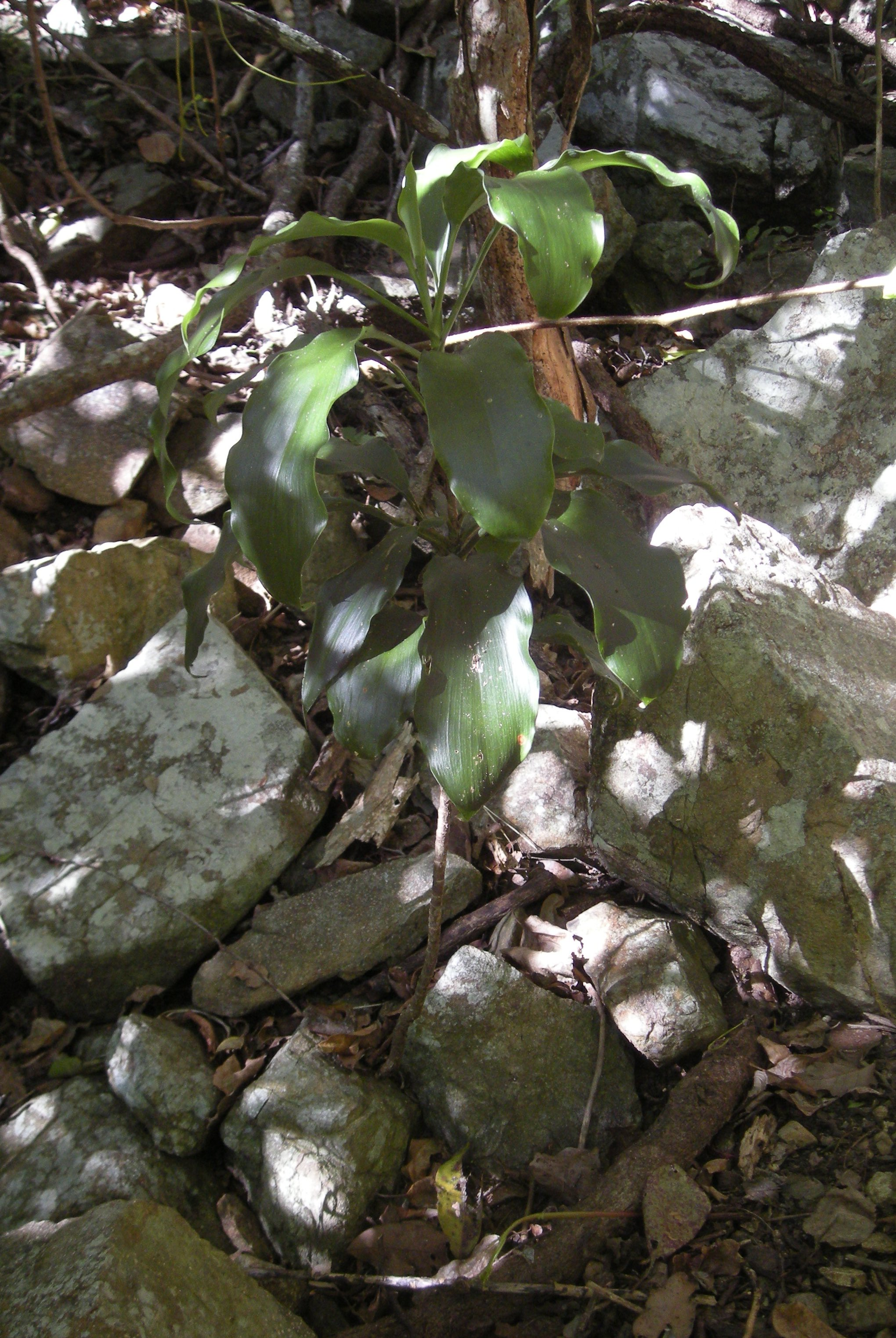 Cordyline murchisoniae flowers, Mount Archer National Park, Rockhampton